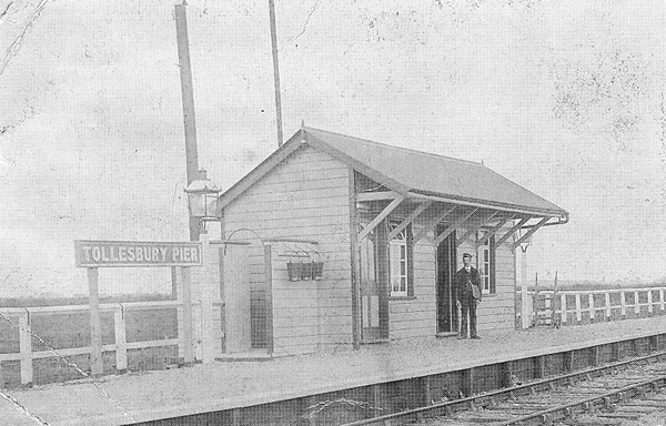 Tollesbury Pier Station, Kelvedon and Tollesbury Light Railway, about 1907. Jack Gallant, Station Master at Tollesbury, stands at the well equipped little station with its smart name-board, fencing, oil-lamps, trolley and fire-buckets. He rode down on the train to carry out duties here as there was no permanent employee.